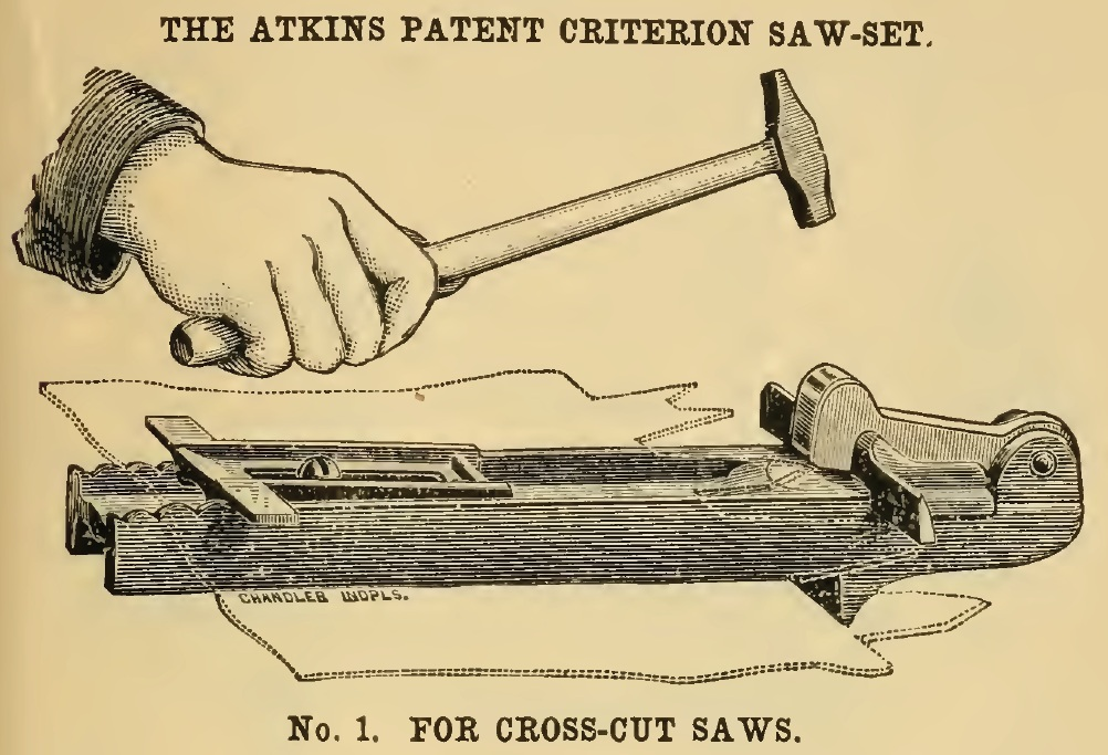 "The Atkins Patent Criterion Saw-Set. No. 1 For Cross-Cut Saws." Illustration (p.81) of a saw set in a 1895 catalog.